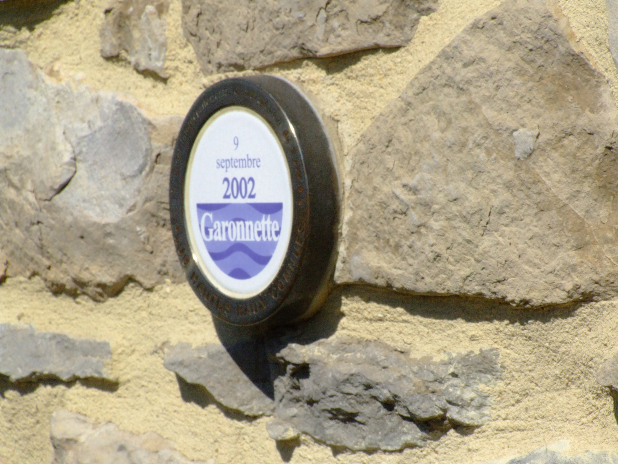 Quissac is village on the banks of the Vidourle in the department of Gard, France, some 20 km north of Sommières.. Marker showing 2002 flood of the Garonnette